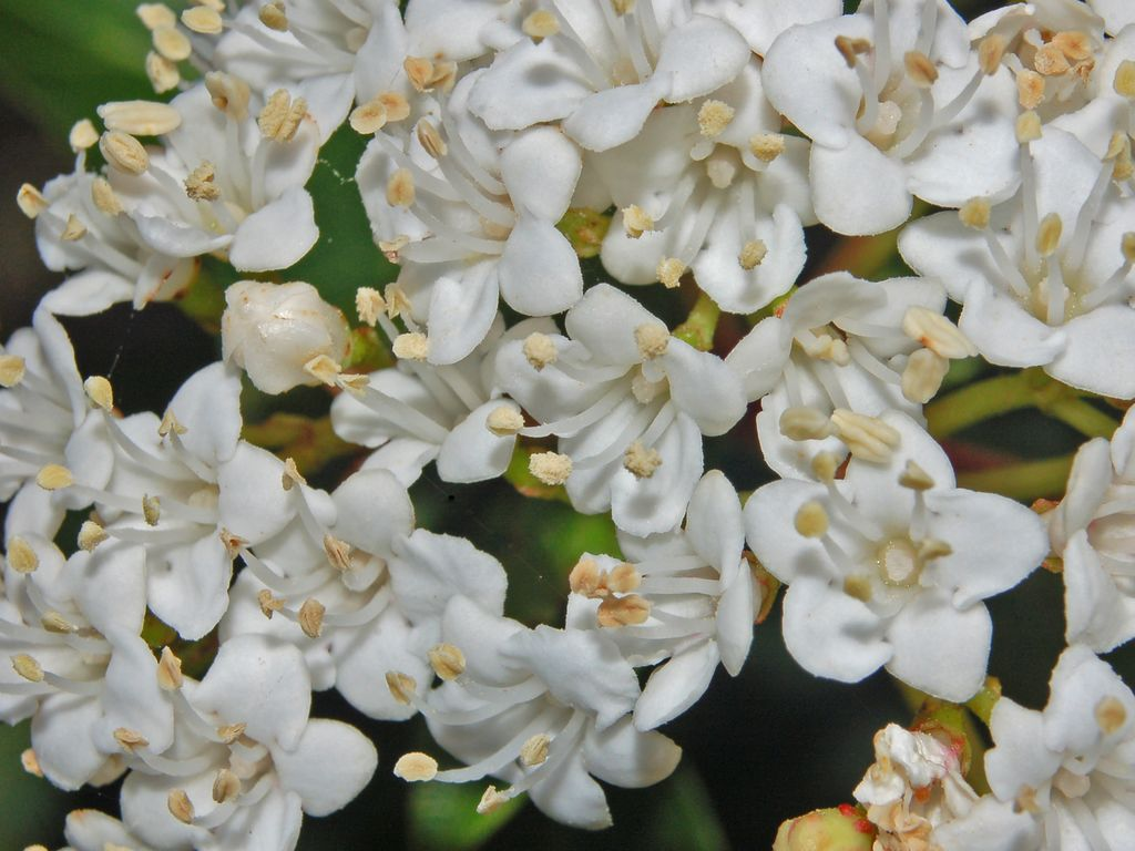 Viburnum tinus - Genova, Italy